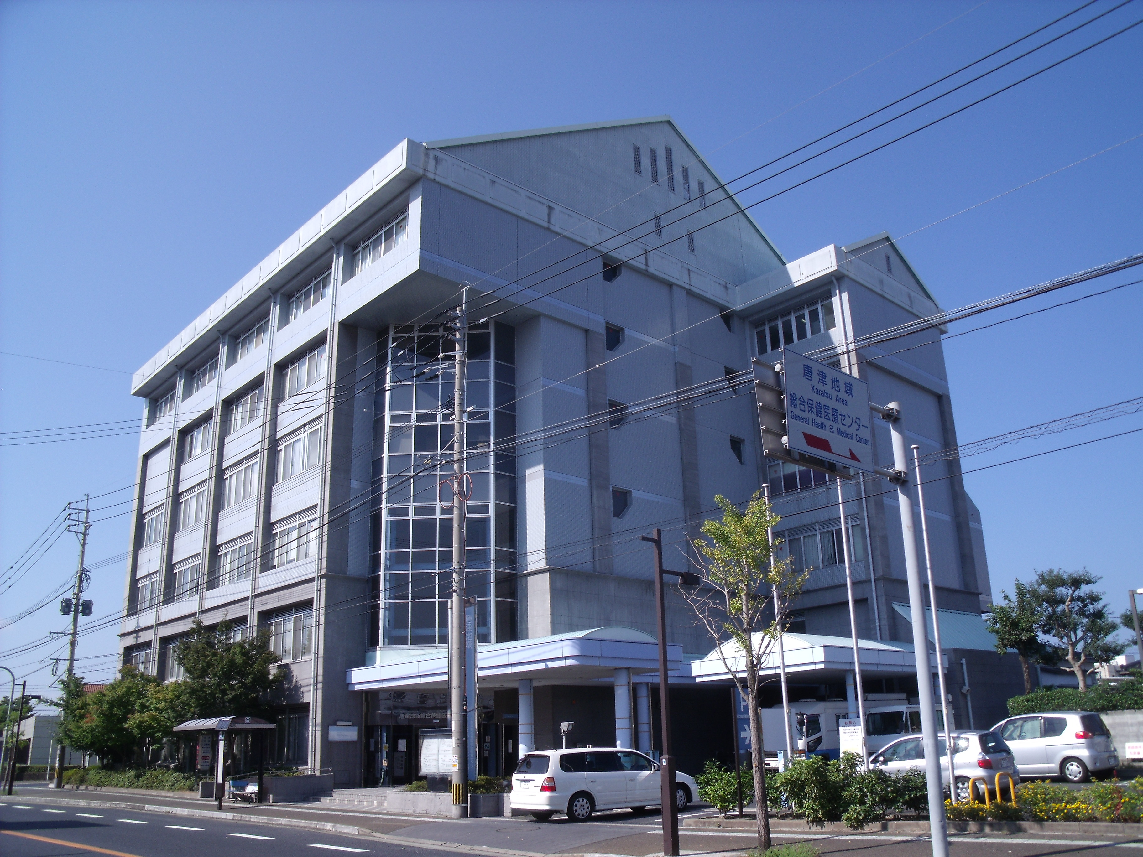 Karatsu Area General Health and Medical Center, Karatsu, Saga, Japan